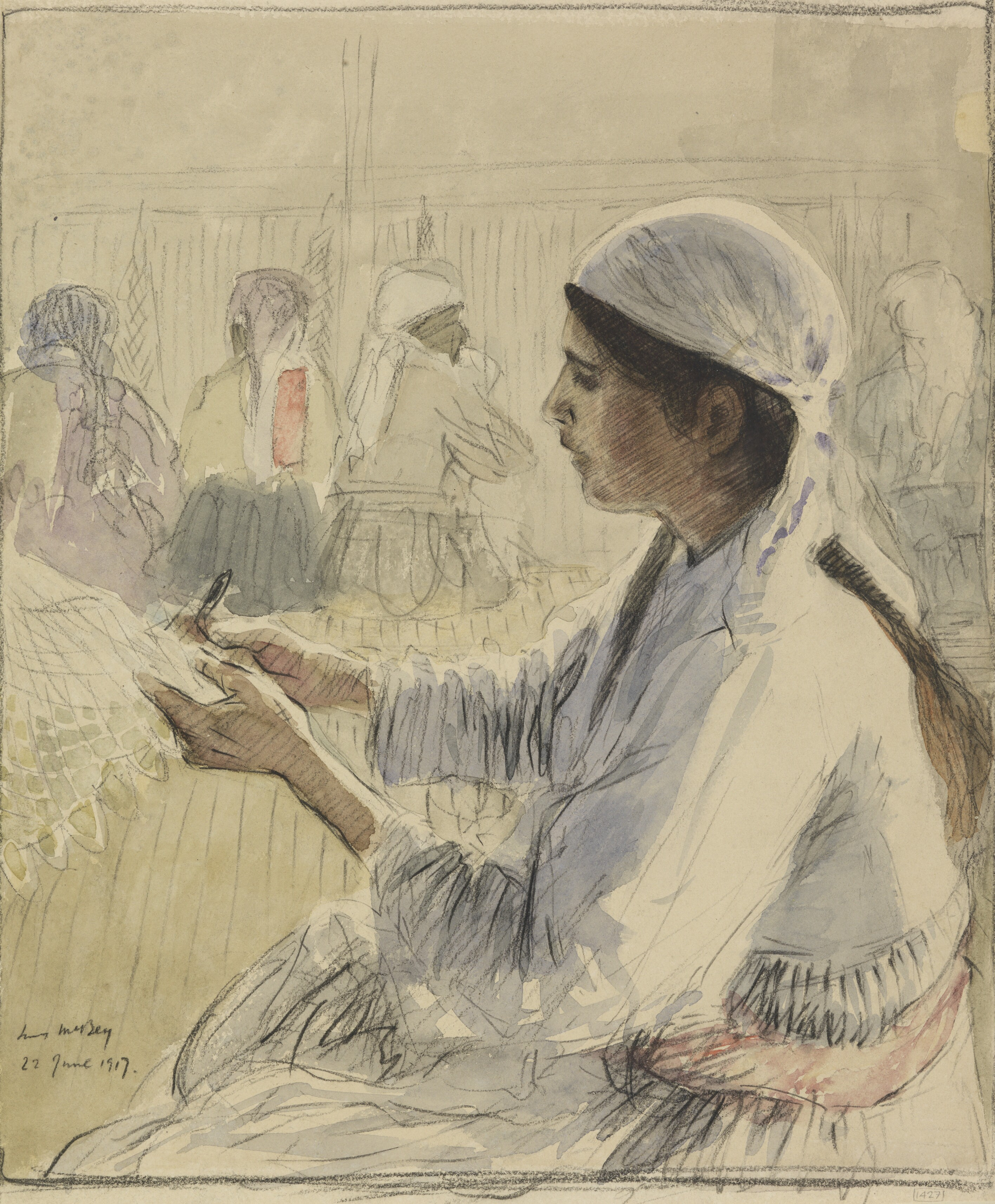 Armenian Refugees making Fly-nets image: a female Armenian refugee is shown in left profile making a fly-net in the immediate foreground. She wears a white dress and white headscarf, her dark hair tied in a pony tail. In the background is a line of four other women also working on fly-nets with their backs to the viewer.